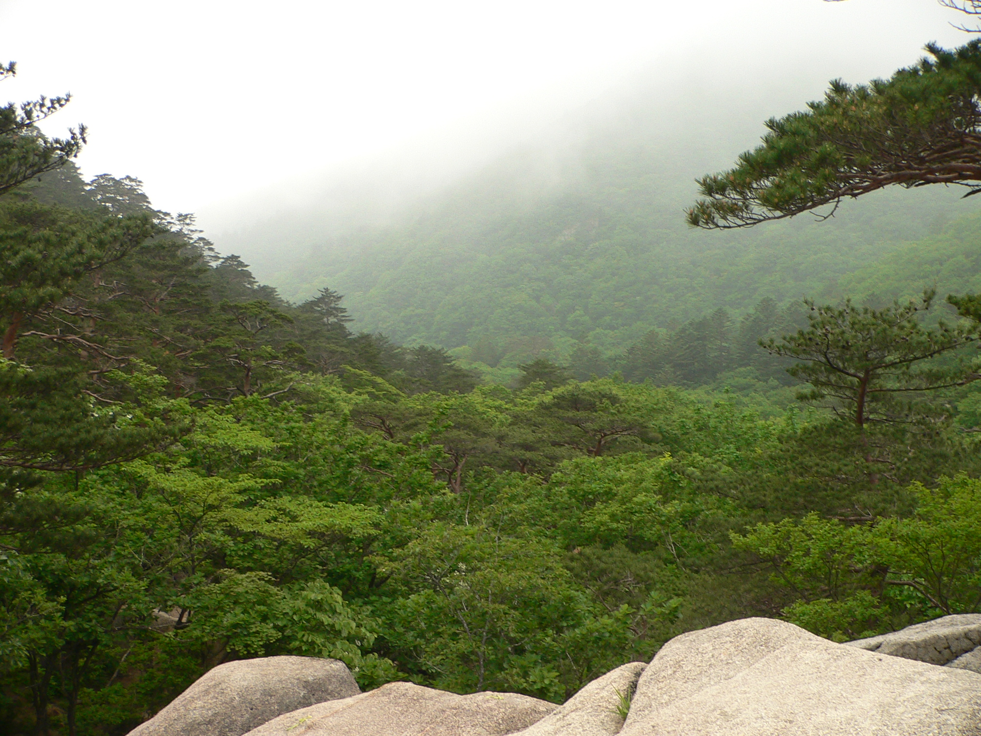 Valley of trees in Seoraksan (Mt. Seorak), Gangwon-do, South Korea